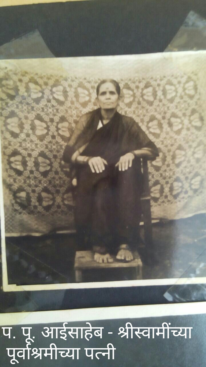 Saw.Kamaltai Karve that is Saw.Dwarakatai was the name of Shri Swamiji's Wife in Purvashrama.